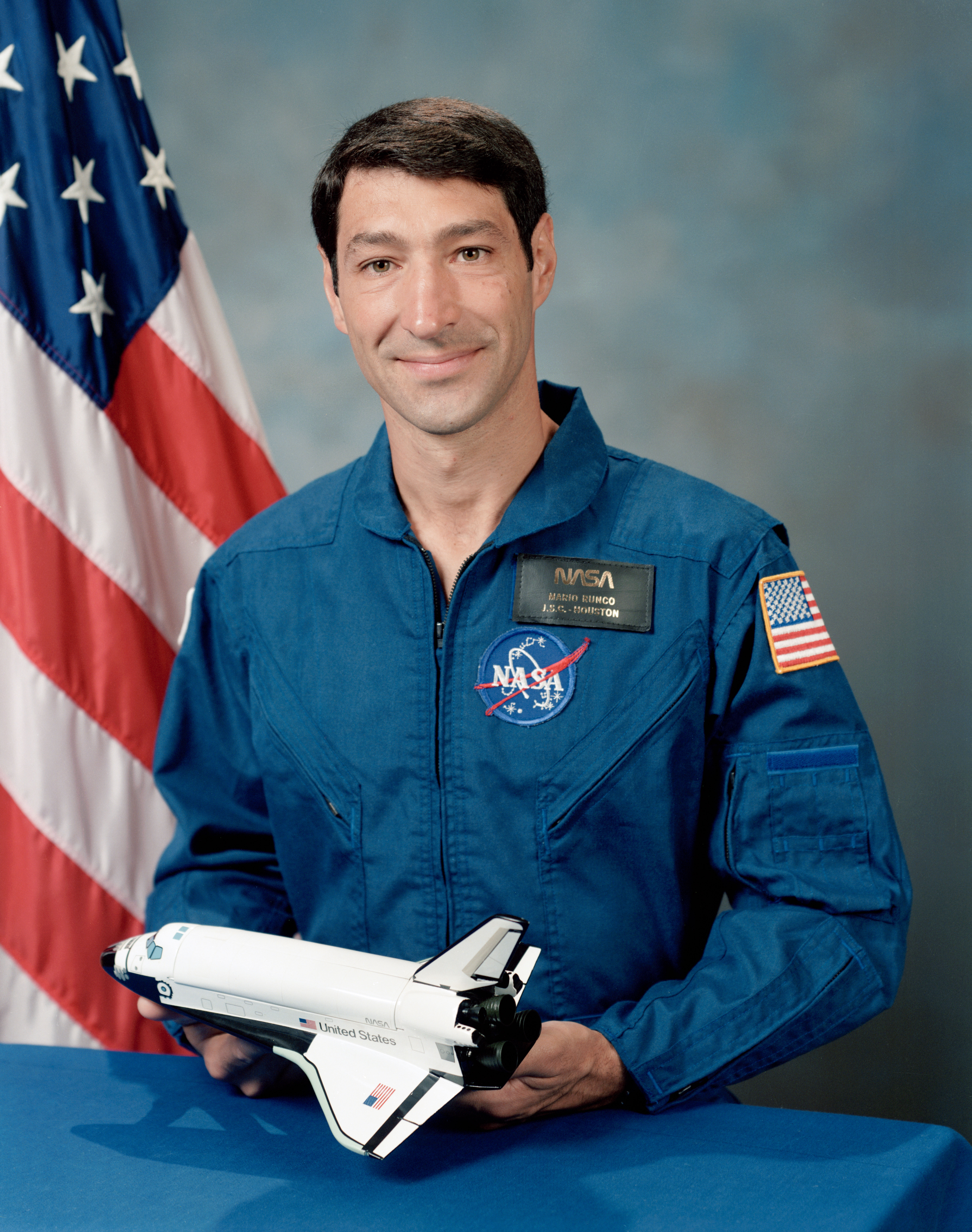 portrait astronaut Mario Runco